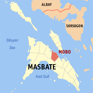 Map of Masbate showing the location of Mobo